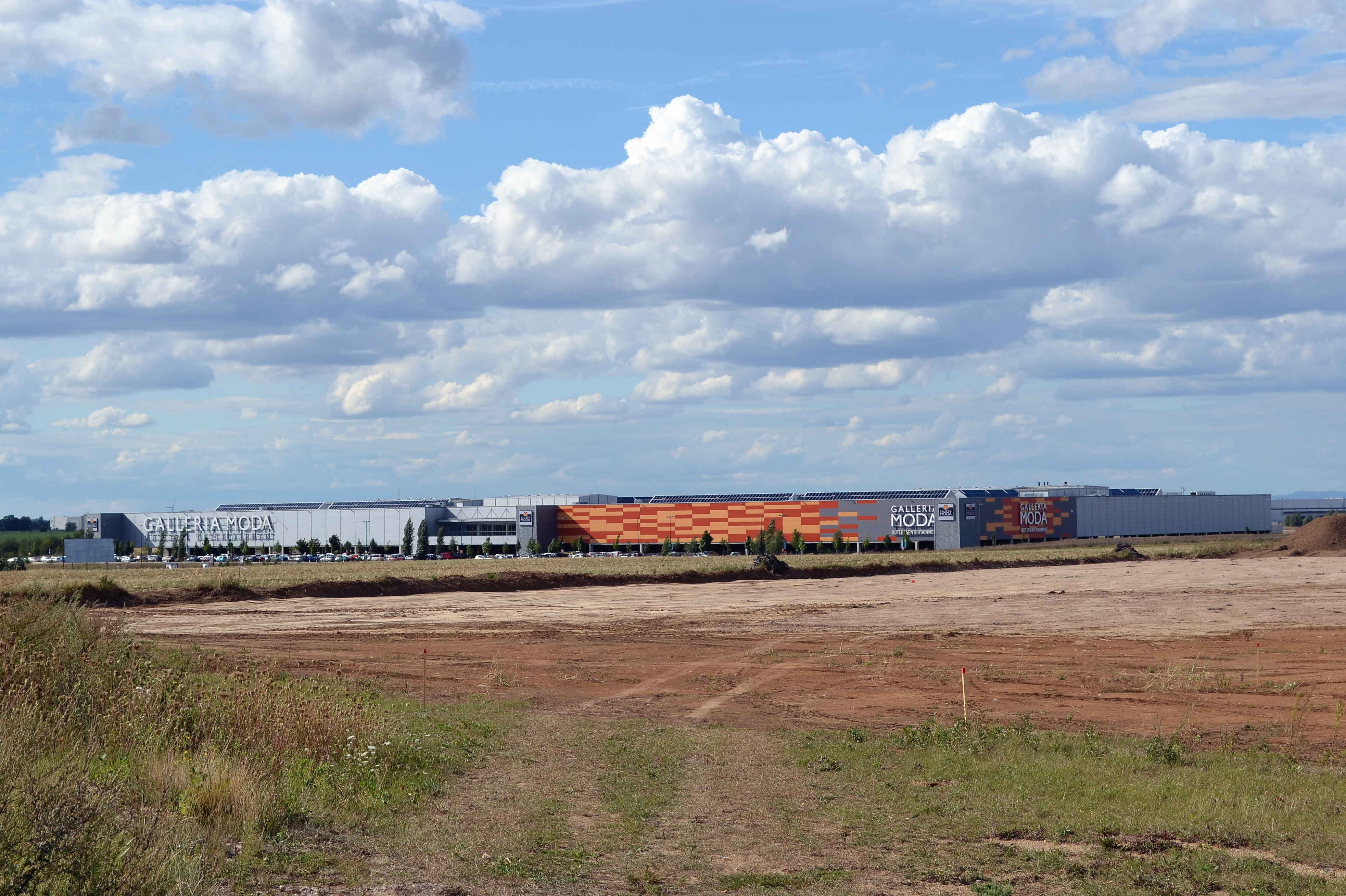 Shopping center Galleria Moda near Tuchoměřice and near Prague-Ruzyně airport.